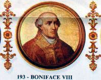 Portrait of Pope Boniface VIIIin the Basilica ot St.Paul Outside the Walls